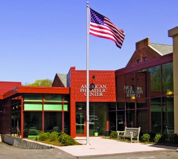 American Philatelic Center, former Match Factory in Bellefonte, PA